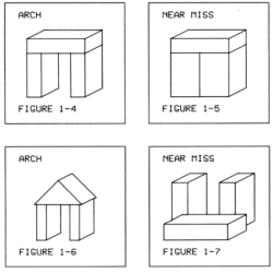 Winstons algorithm learns the concept 'arch' in four sequentual steps.